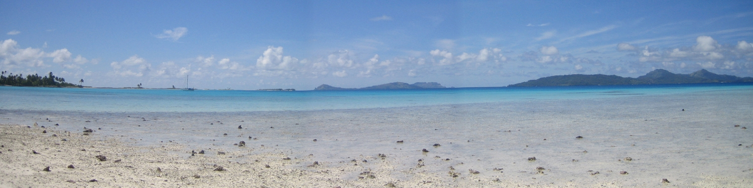 Panorama view over Gambier Islands, French Polynesia